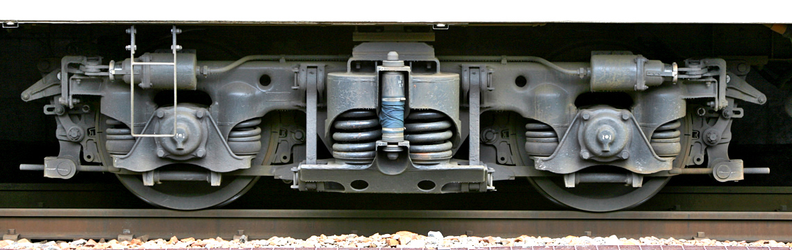 Type DT21-B Bogie truck of JR West's JNR 113 series EMU (Moha 113-7019).